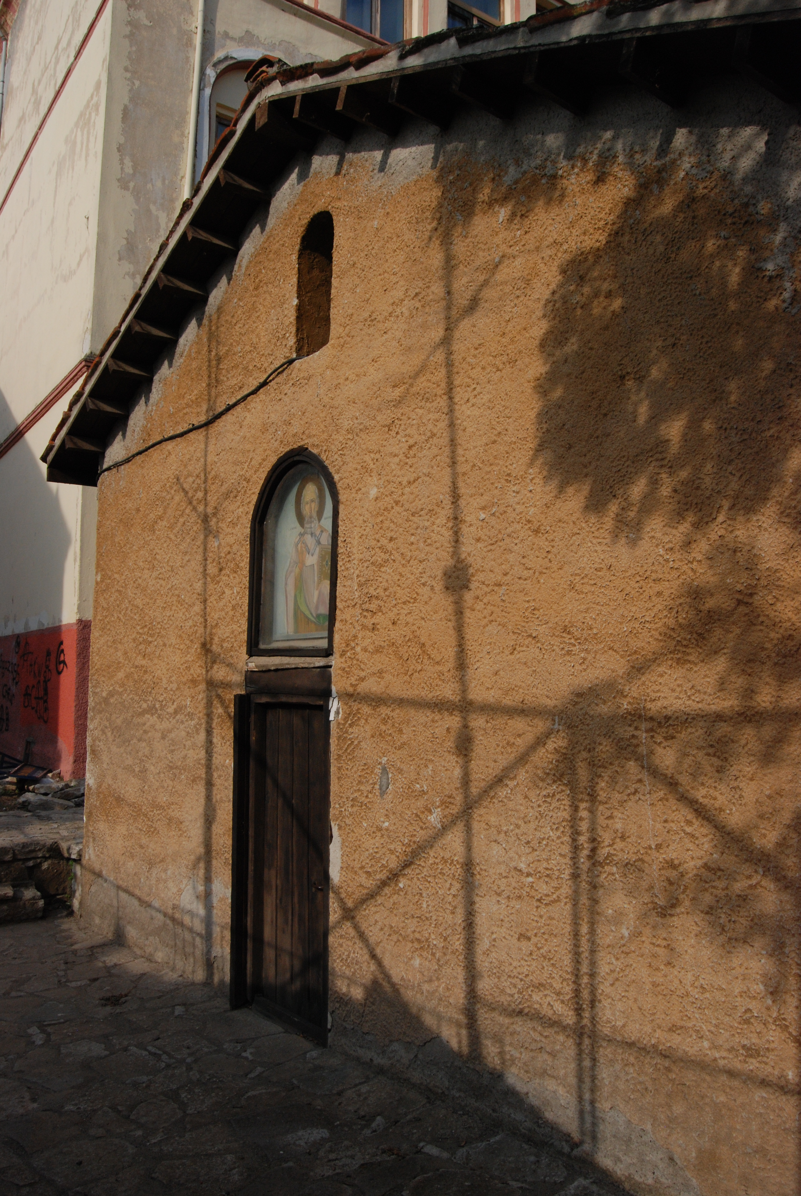 Saint Athanasius of Mouzakis Church